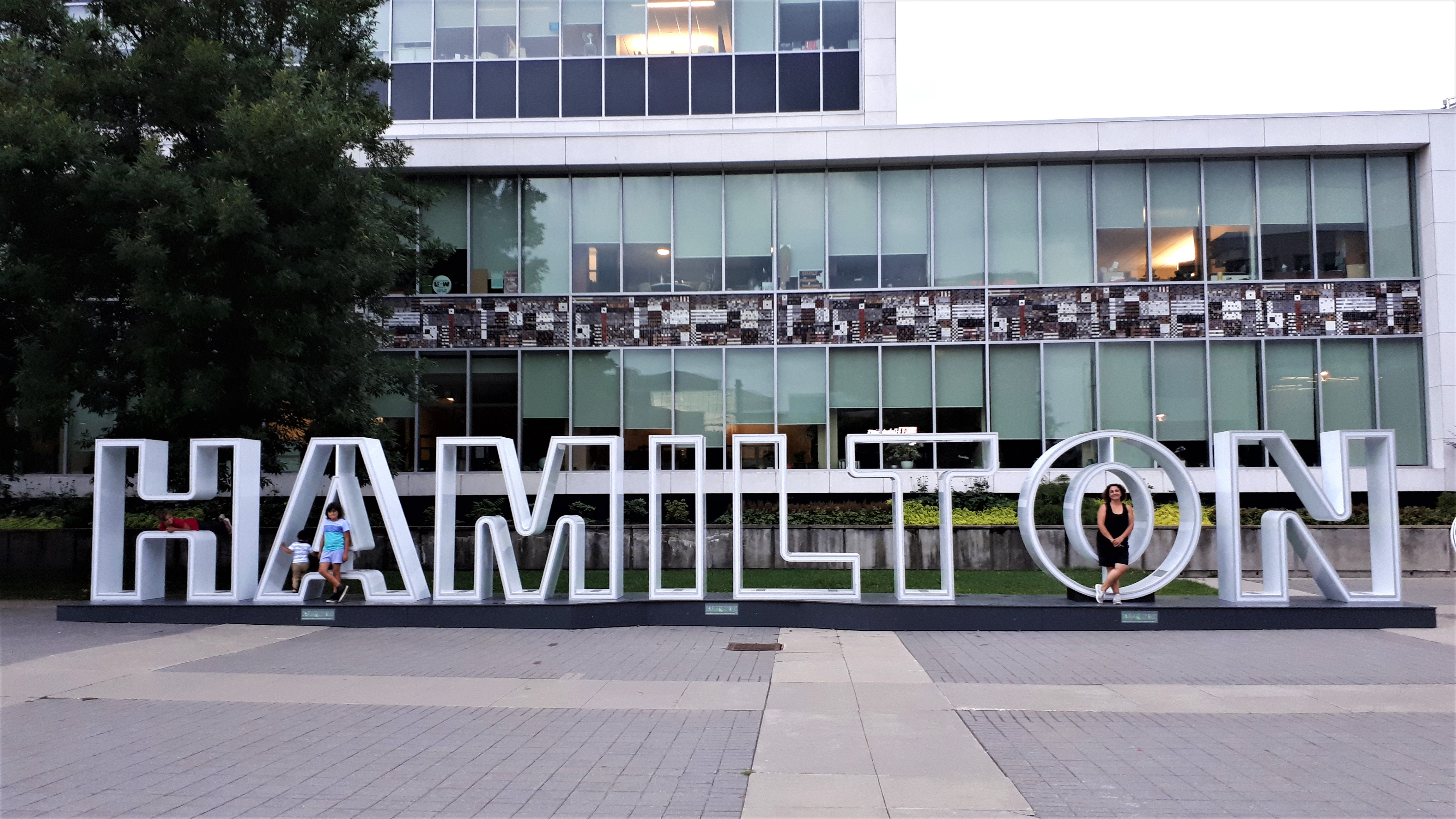 The Hamilton Sign at City Hall- Hamilton-Ontario